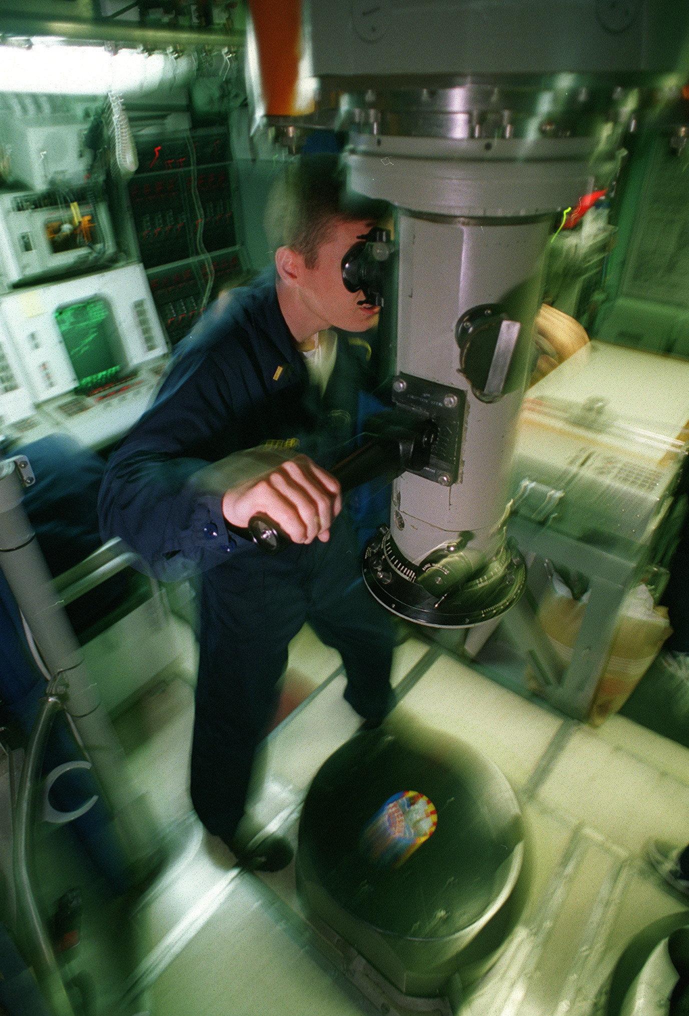 980519-N-3149V-009 ABOARD USS TUCSON (May 19, 1998) – Ensign Aaron Keffler searches for surface ships with a periscope aboard the Los Angeles-class, fast attack submarine USS Tucson (SSN 770). Tucson deployed to the Persian Gulf in support of Operation Southern Watch. U.S. Navy photo by Photographer’s Mate 2nd Class Jeffery S. Viano. (RELEASED)